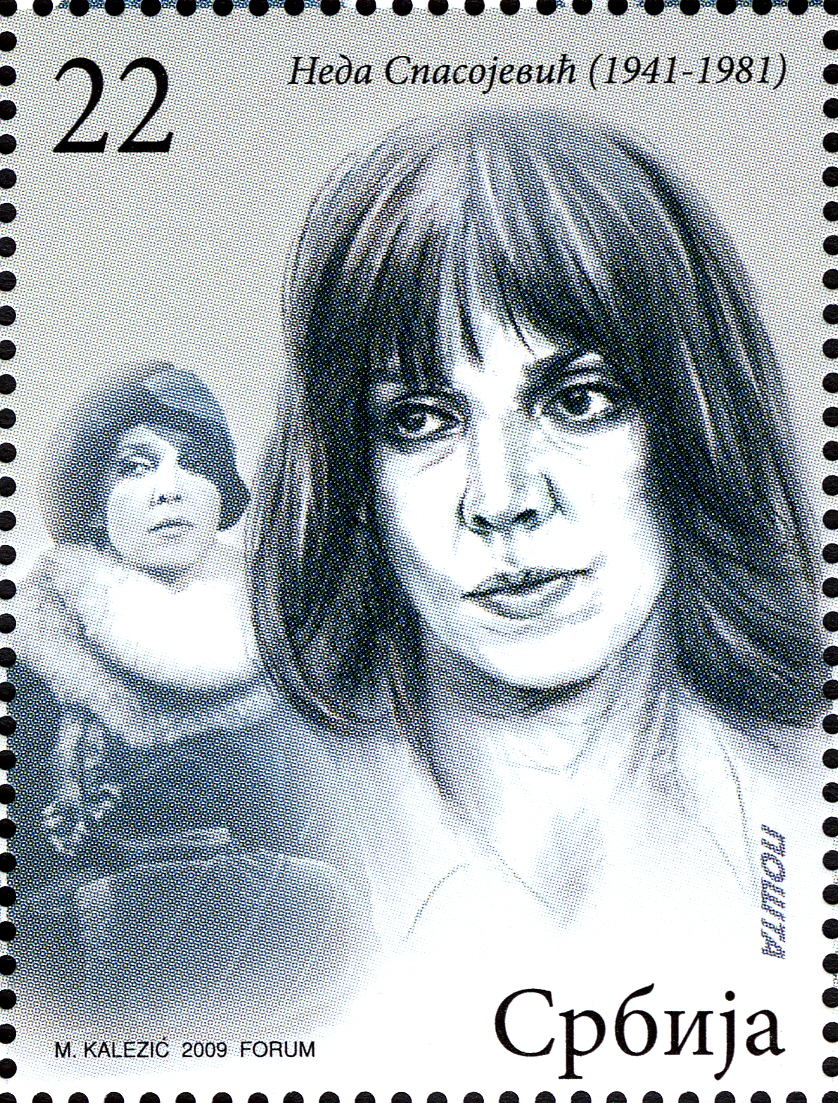 Famous Actors of Serbian Theatres